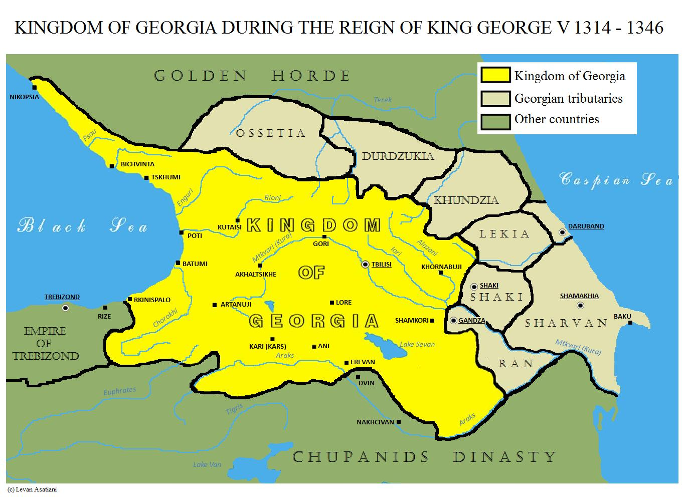 Map of Georgia during the reign of King George V